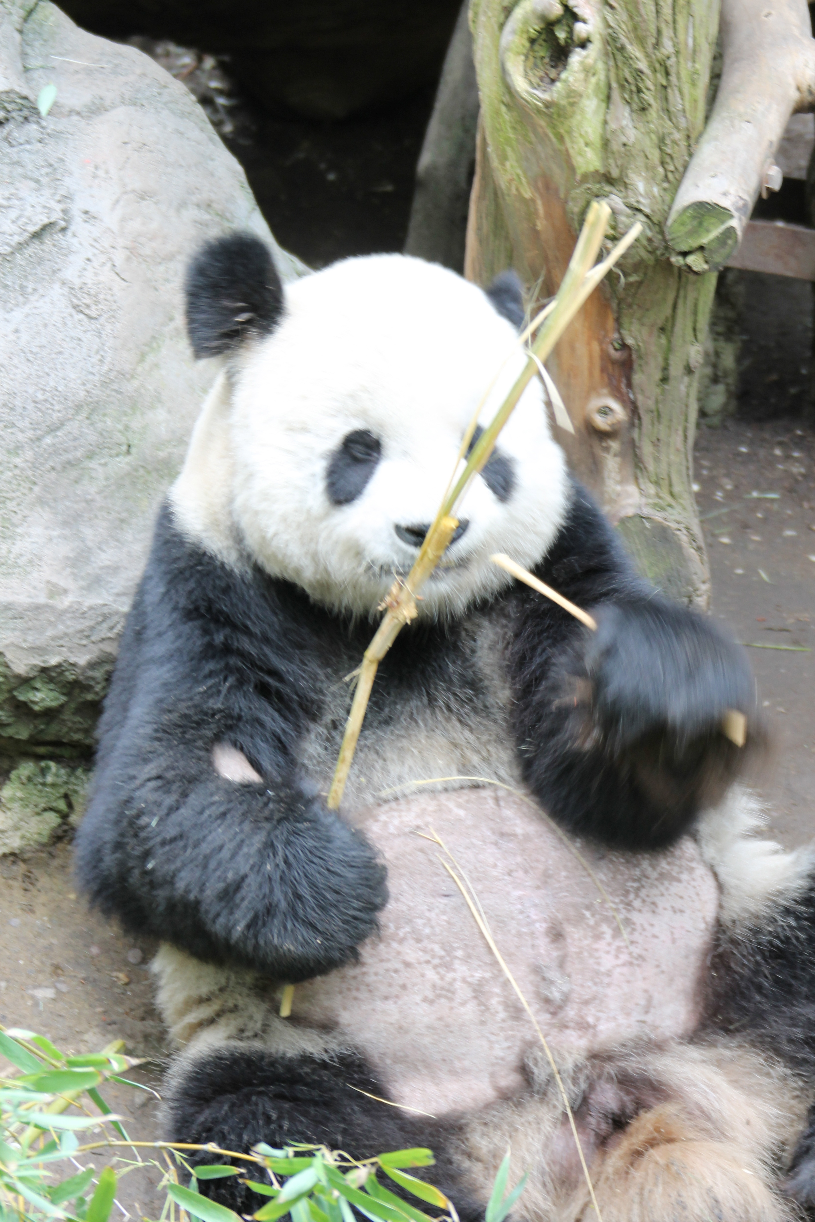 GaoGao Eating Bamboo